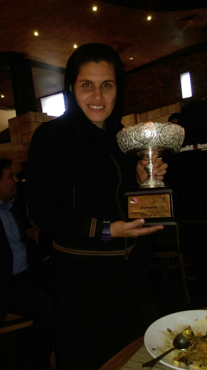 وحیده ایثاری